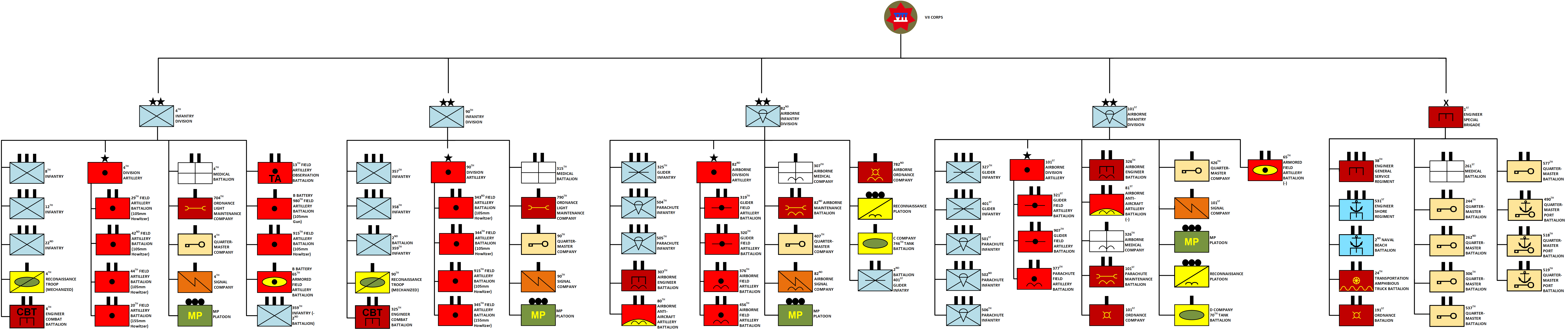 Order of battle table showing organization of US VII Corps on June 6th 1944